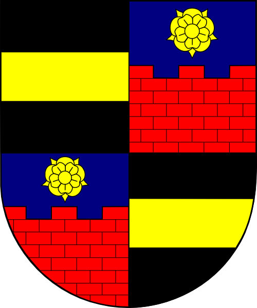 Coat of arms (shield only) of Daniel Joseph Ignaz Mayer von Mayern, archbishop of Prague (1732 - 1733).